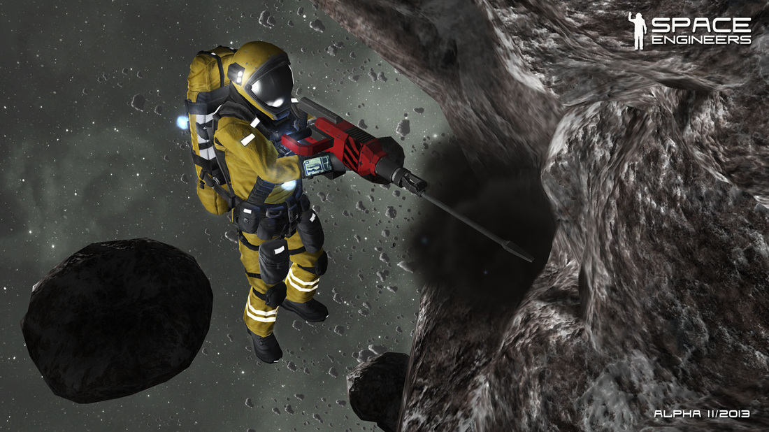 Screenshot of the game showing an astronaut manually drilling an asteroid for resources.